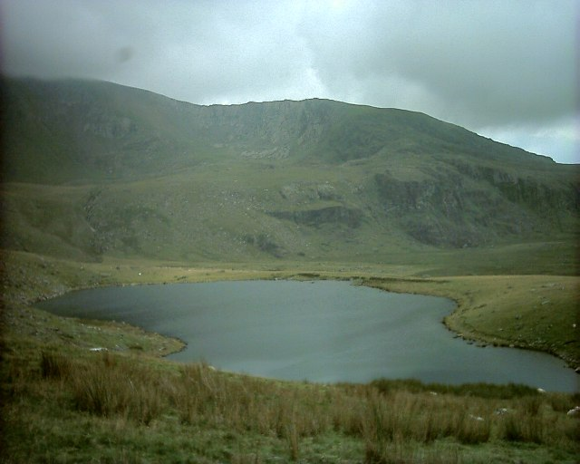 Llyn Ffynnon-y-gwas. Llyn Ffynnon-y-gwas reservoir, taken from the Snowdon Ranger path